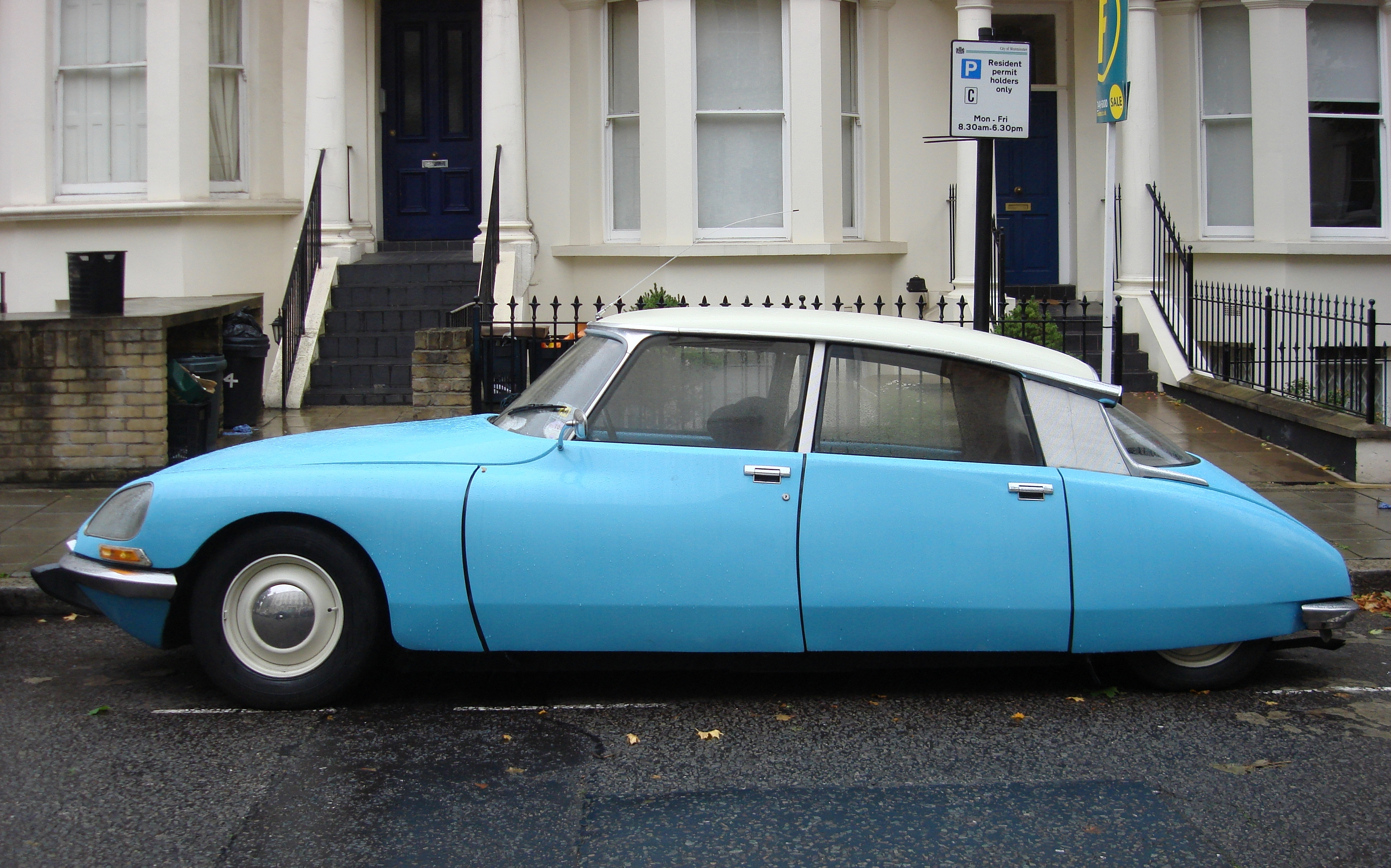 Citroën DS D Super, London